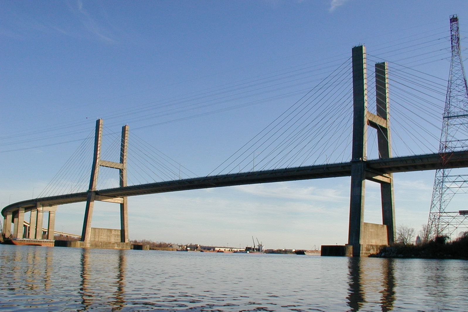 Cochran-Africatown Bridge in Mobile, Alabama.